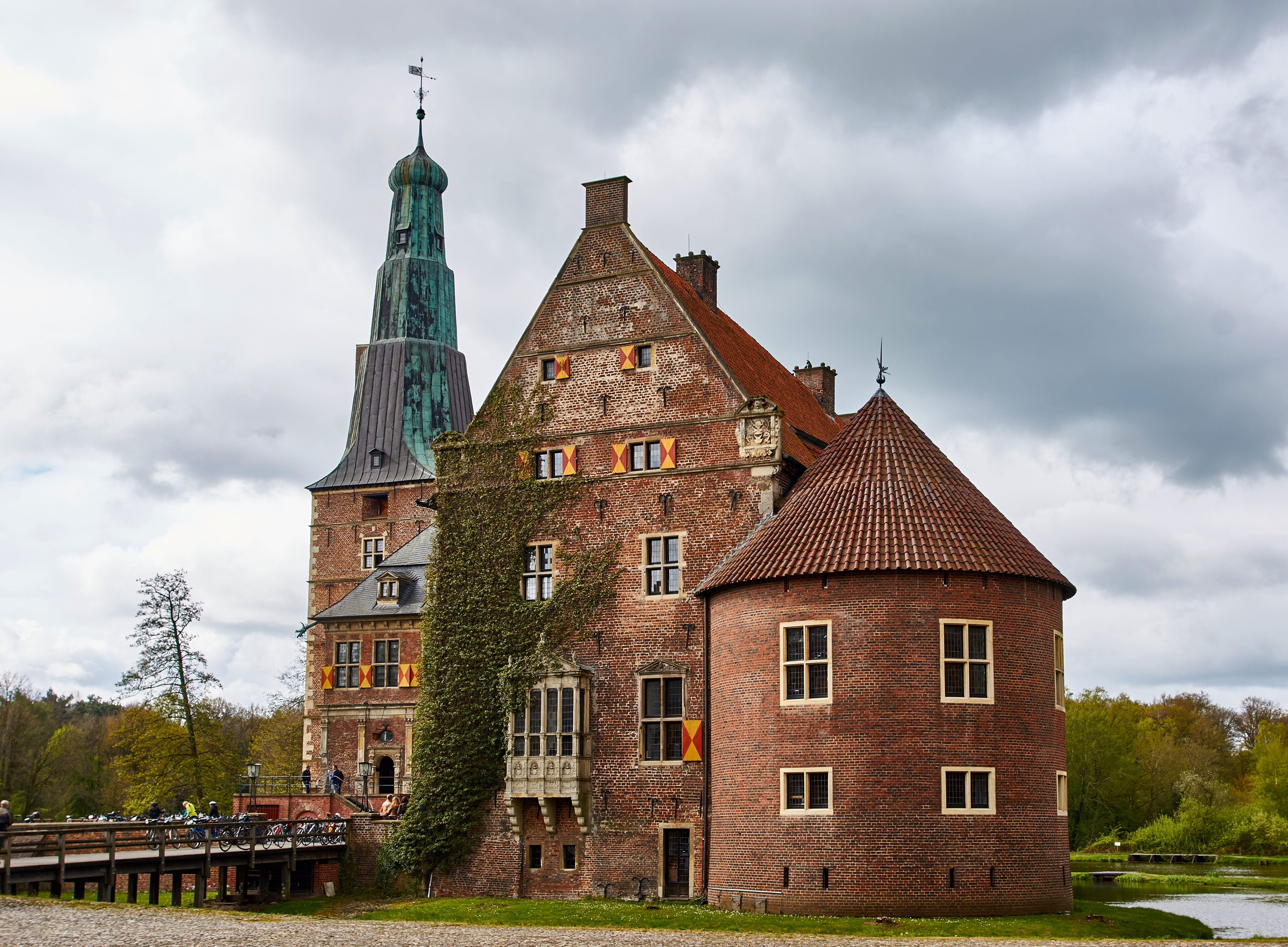 Raesfeld Castle, Raesfeld, district of Borken, North Rhine-Westphalia, Germany. This is a photograph of an architectural monument.